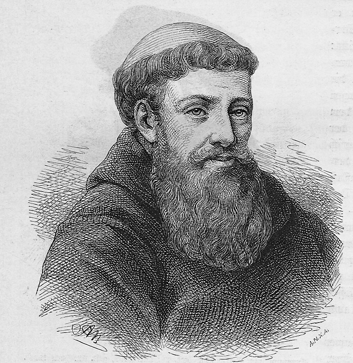 Thomas Murner